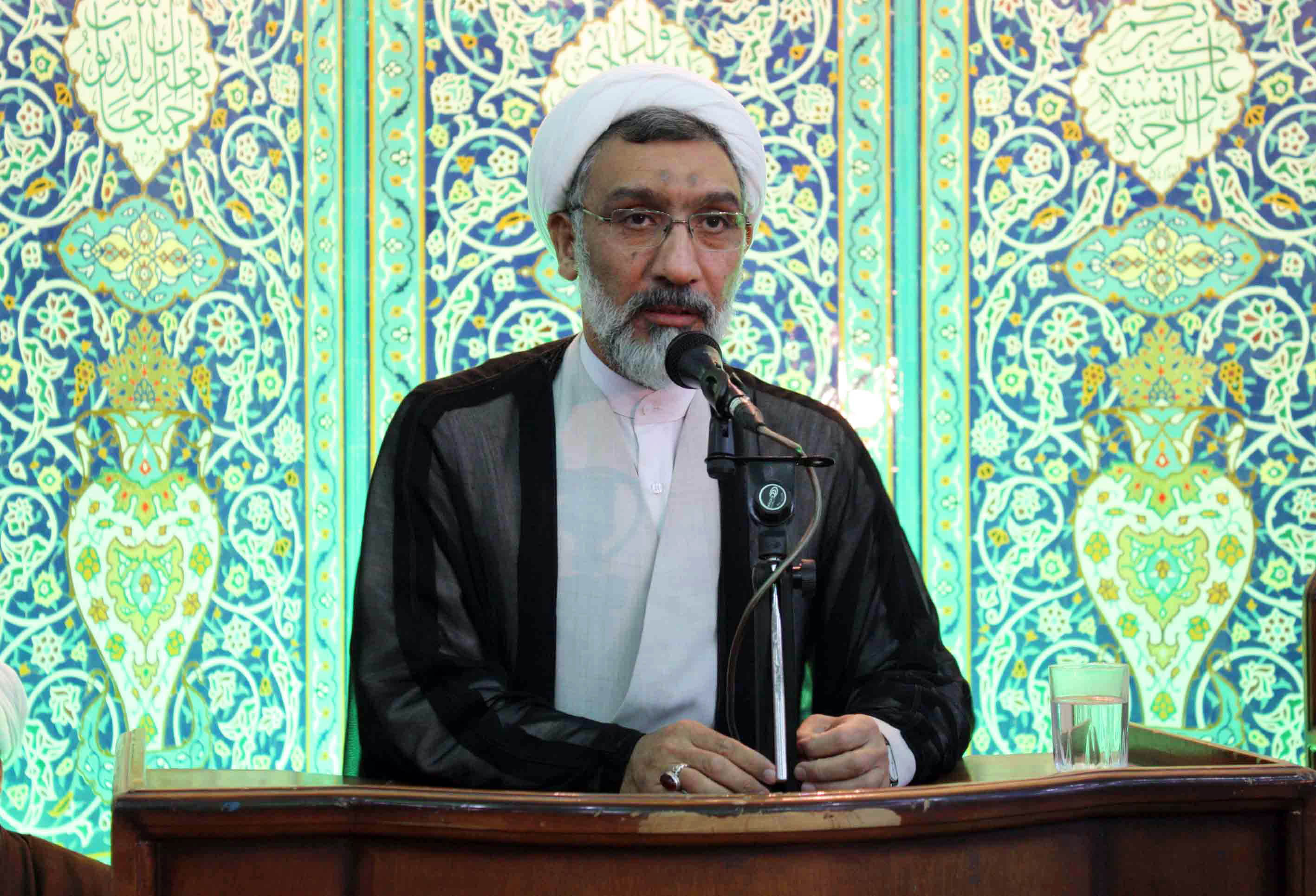 Portrait of Mostafa Pourmohammadi.